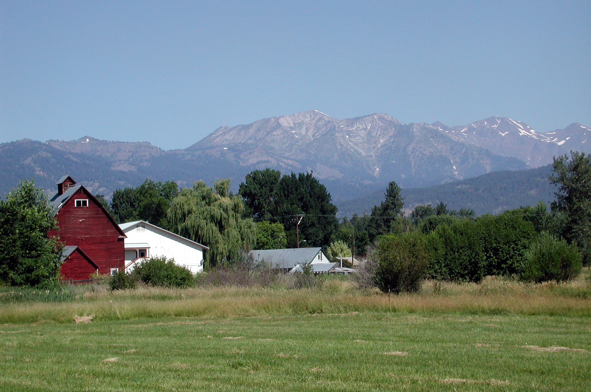 View from the south side of Halfway, Oregon, looking north toward the Wallowa Mountains